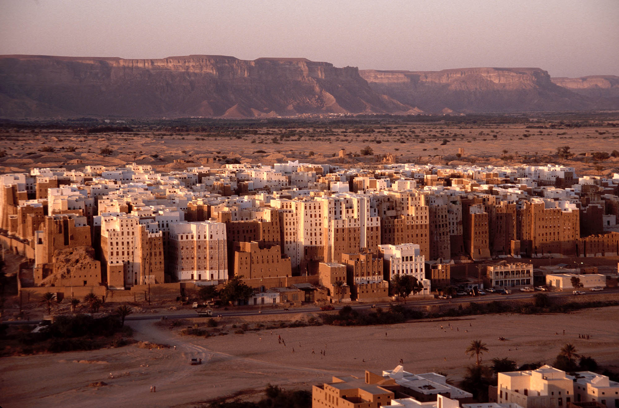 The high-rise architectures at Shibam, Wadi Hadhramaut (or Hadhramout, Hadramawt) Yemen.